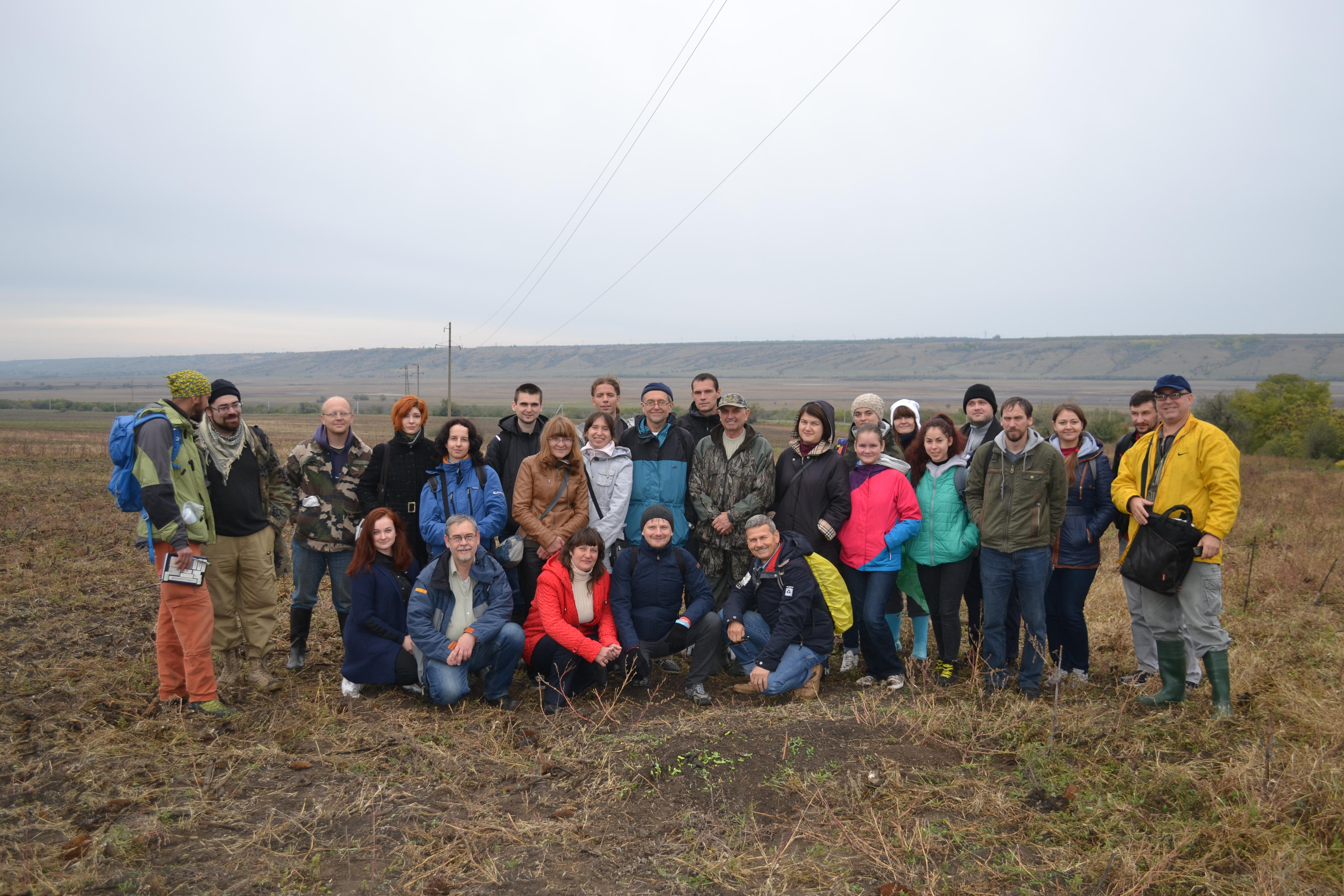 A picture of participants of Terioskola 2017